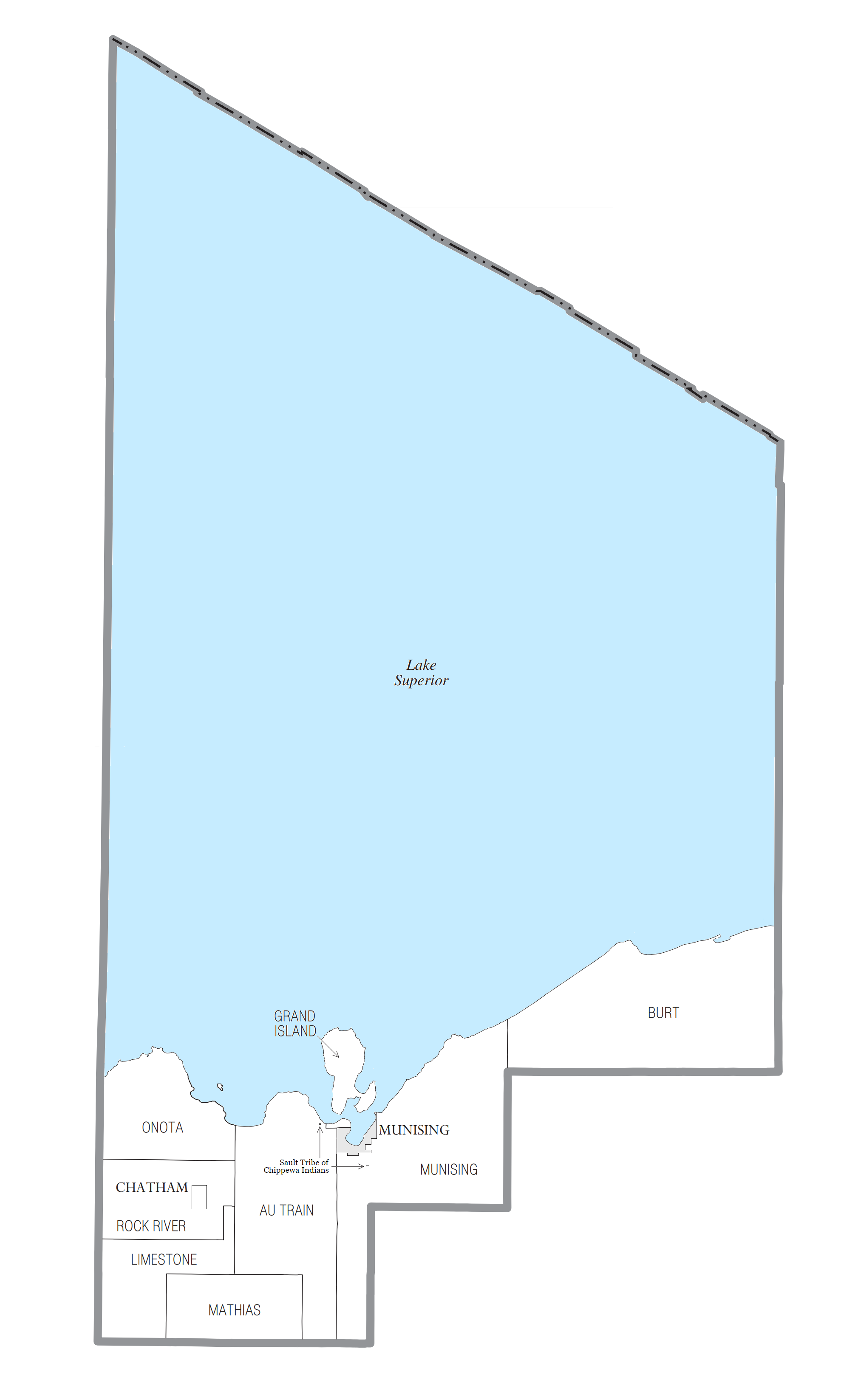 Alger County, MI census data map